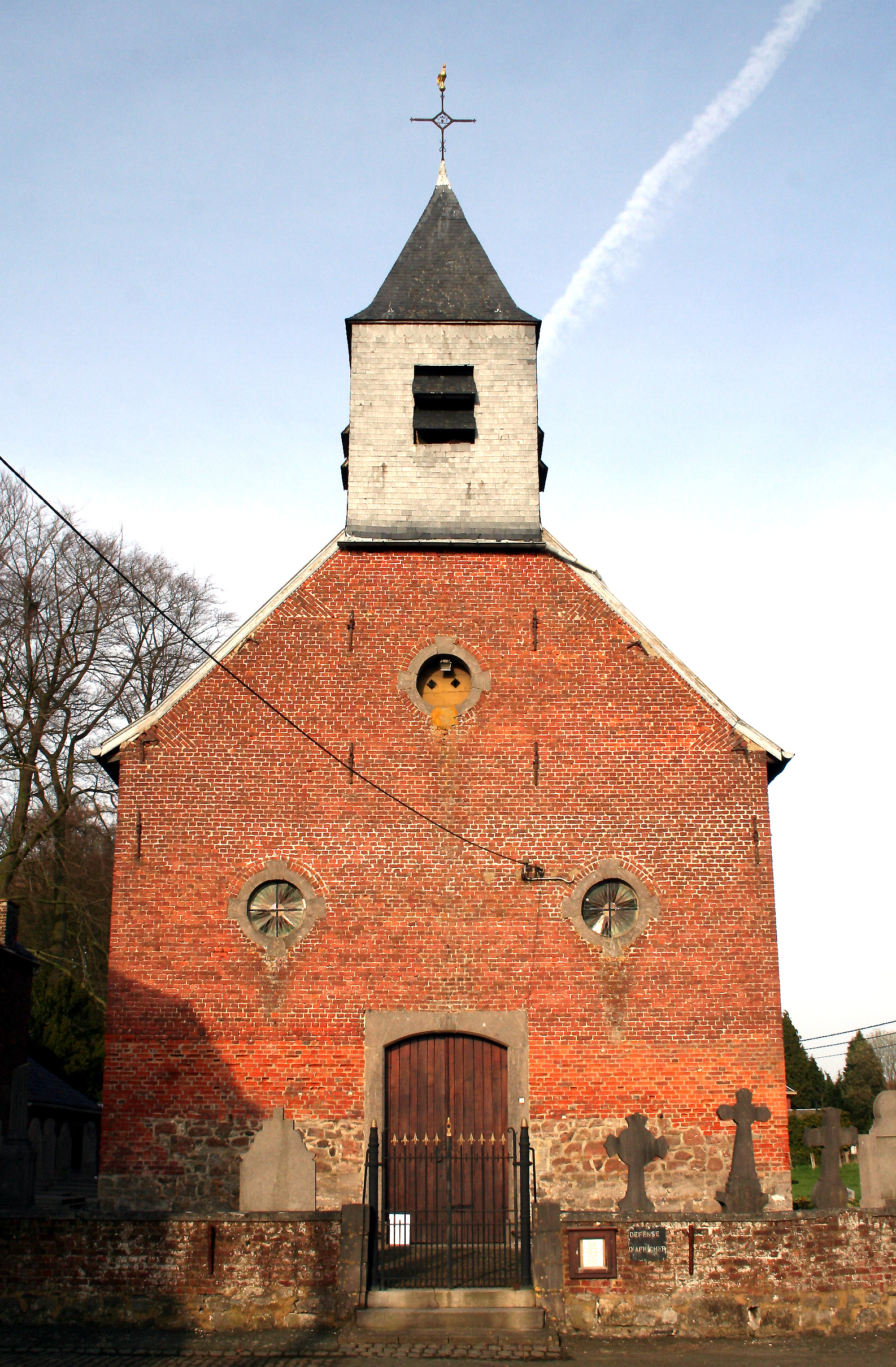 Fouleng (Belgium), the Saint Clement ’s church (1780).